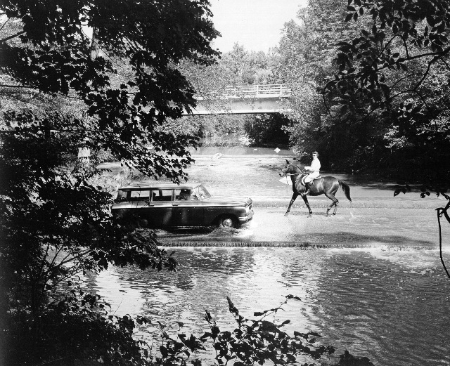 Milkhouse ford through Rock Creek in Washington DC, with a horse and rider, as well as a 1960 Rambler American station wagon, crossing it.